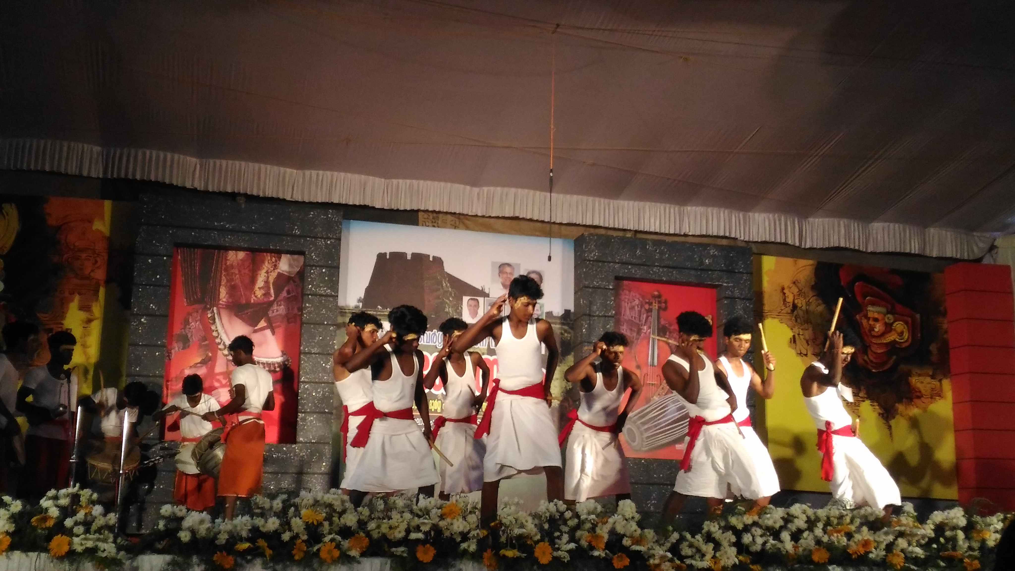 Malappulaya Attam-A tribal dance of Kerala